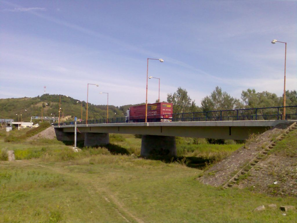 Road bridge over Ipel near Balassagyarmat